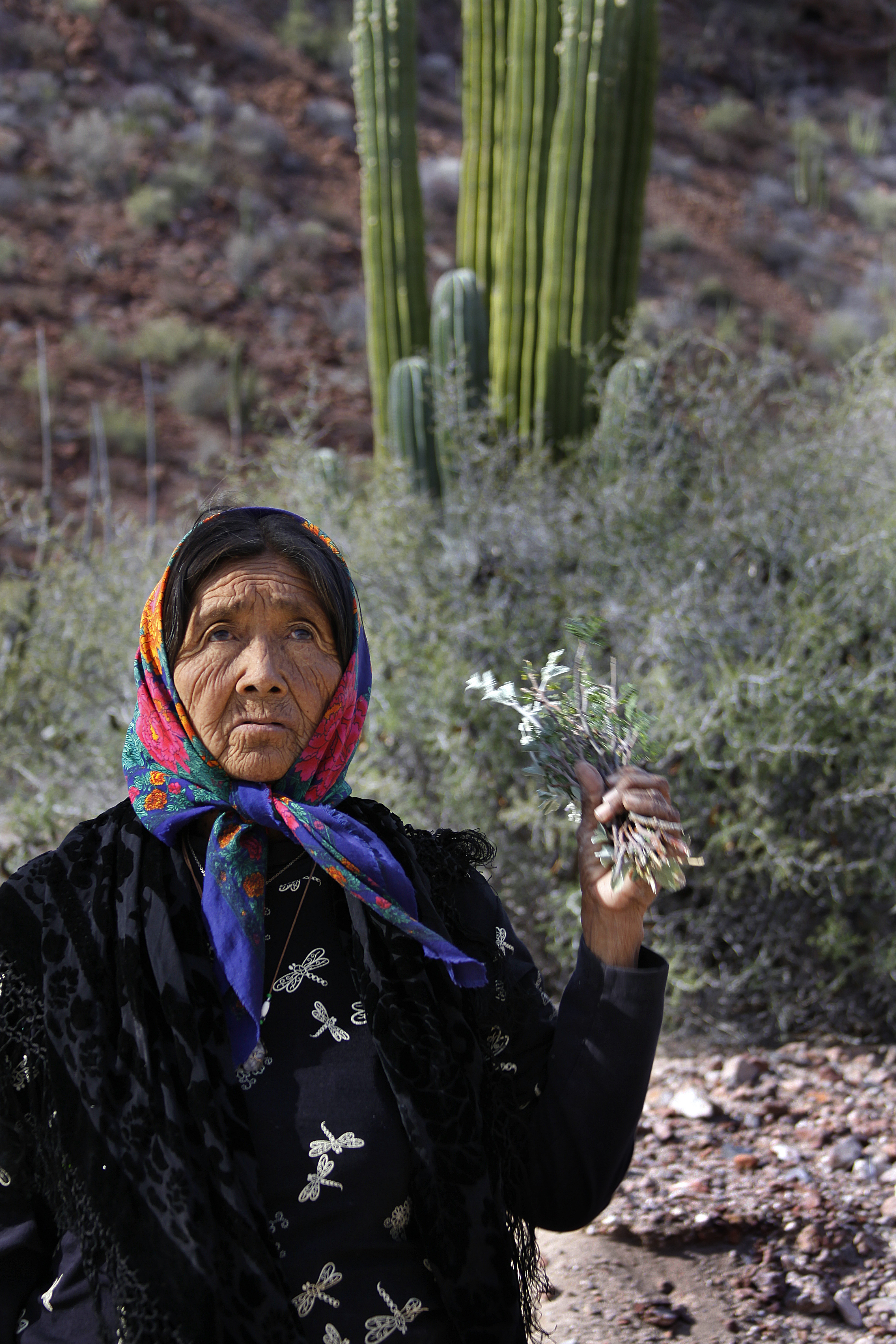 Doña Ramona, a Seri shaman from Punta Chueca, Sonora, Mexico.